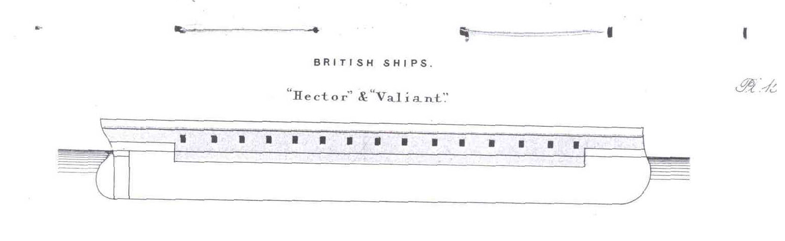 English ironclad HMS Hector, launched in 1862